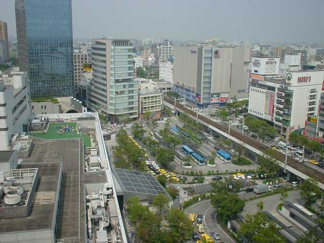 East Japan Railway's Kawasaki Station East Exit